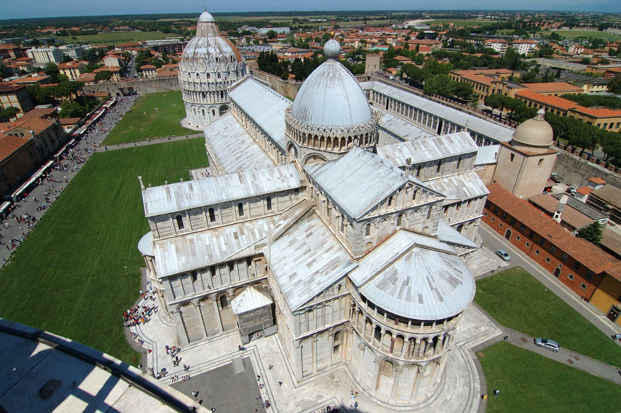 Pisa Cathedral seen from the Leaning Tower. (NOTE: This version of the photo has been digitally brightened. This was done on the grounds that the original photo has very sharp shadows, yet the picture itself is of uniformly dull tone. It must in fact have been a bright sunny day when the photo was taken. The brightening has resulted in loss of detail to the lighter areas, particularly the roof. The original picture should be retained to maintain these details.)